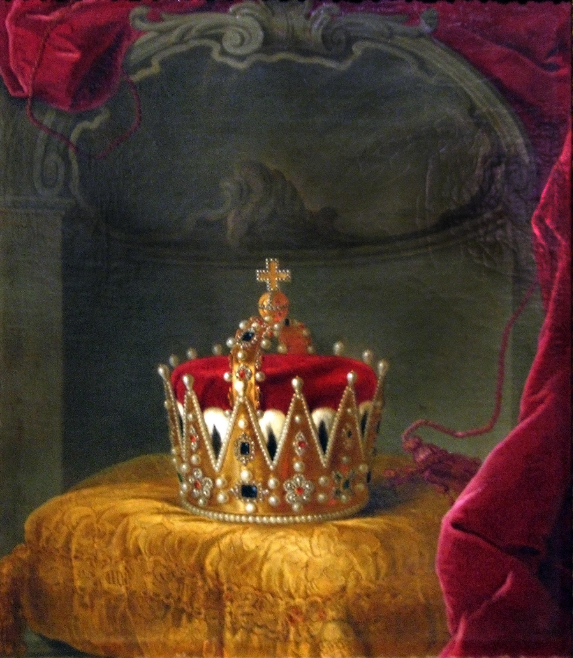 Painting of the baroque Austrian archducal coronet. Austria (Vienna?)